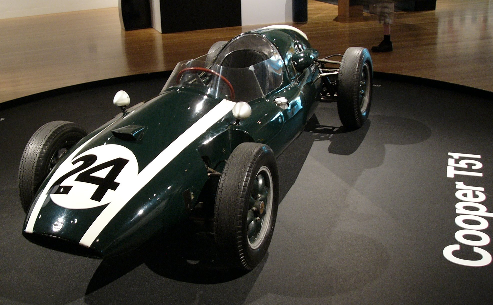 Photos taken at TePapa, Museum of New Zealand, Wellington